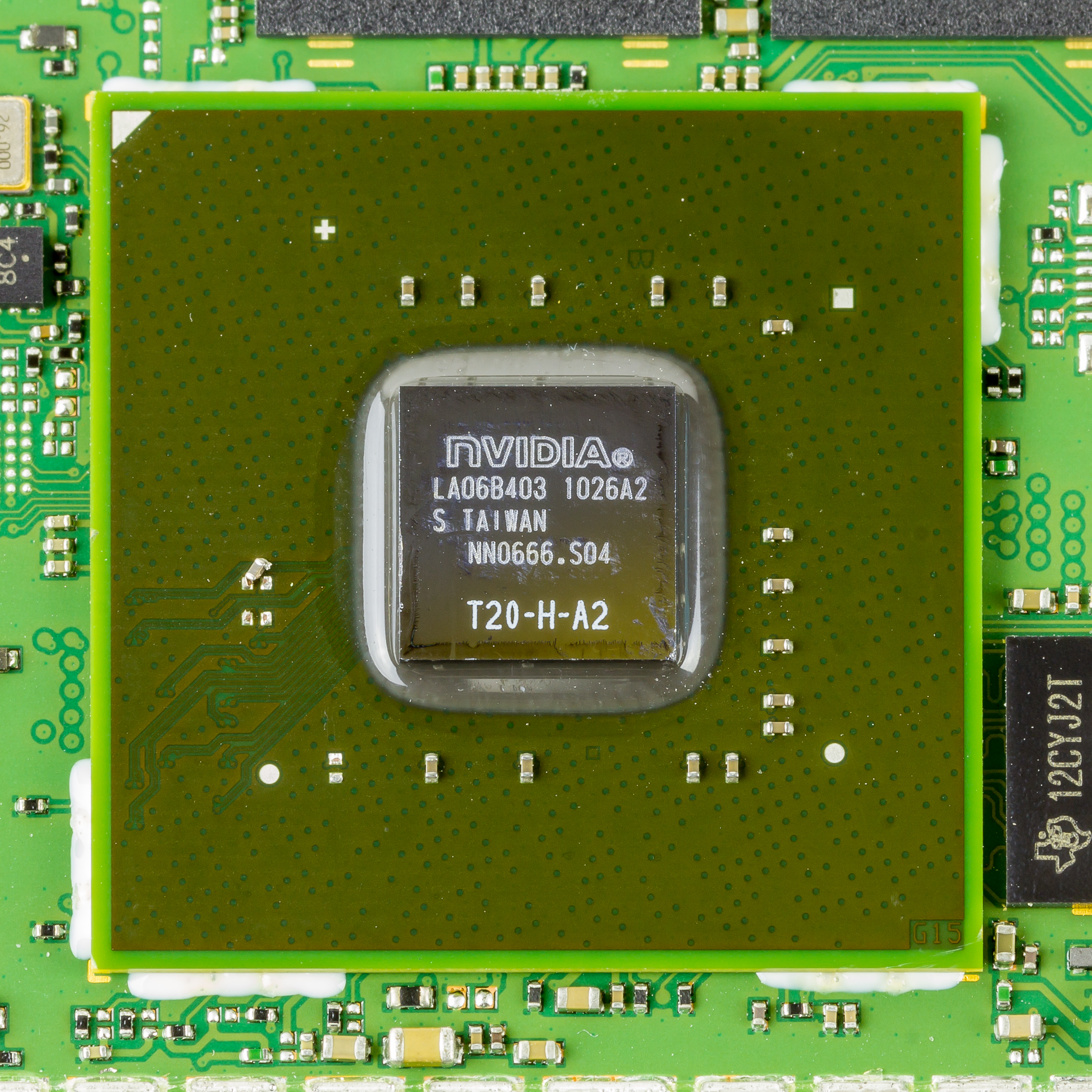 Motorola Xoom - nvidia Tegra 2 T20-H-A2 on main board